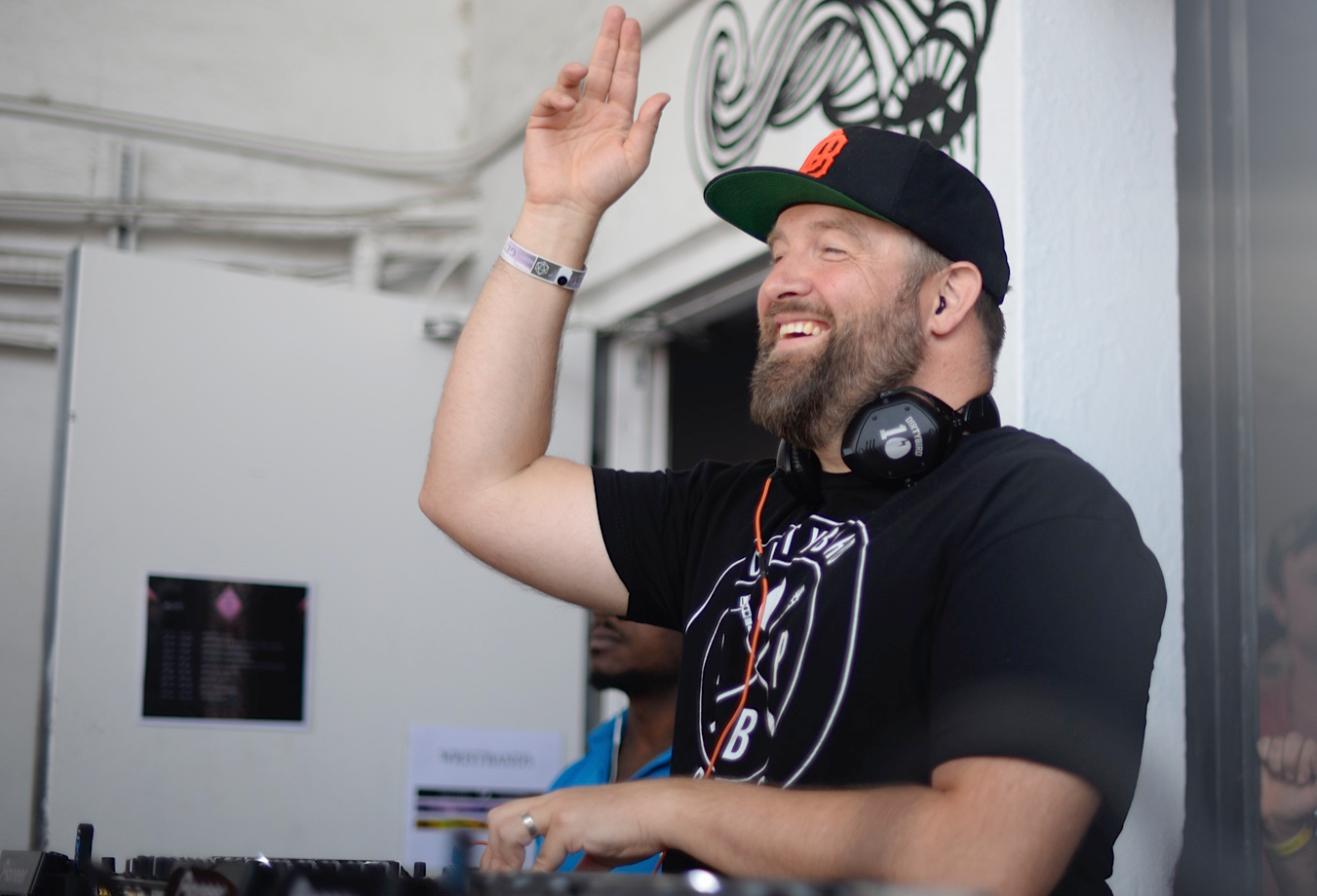 Claude VonStroke in Miami - 2015